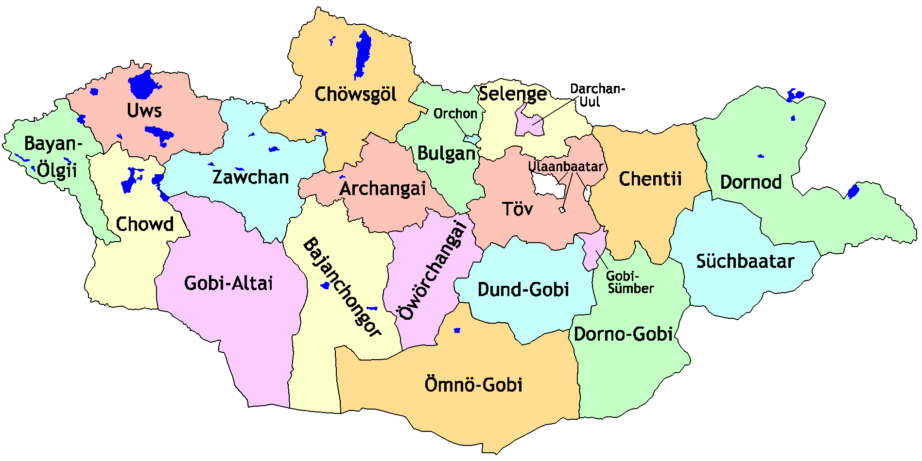 Mongolia aimag division map, German version